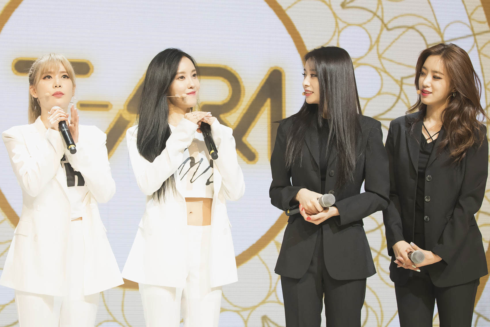 170614 'What's My Name' Showcase